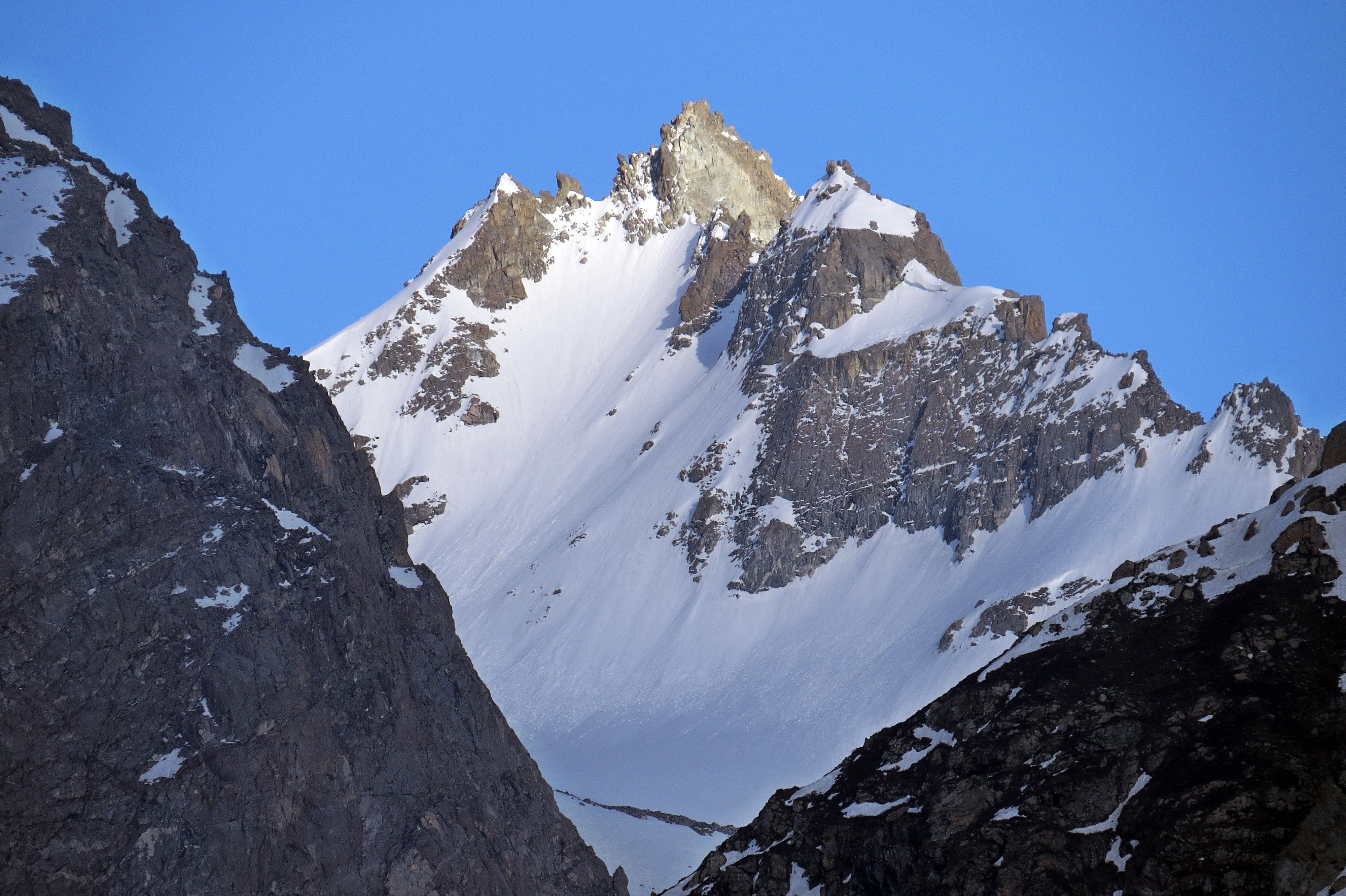 Kalam, Swat Valley, Pakistan. My shot shows a lovely peak in Hindu Kush Mountain Range. These beautiful peaks can be seen from Kalam main bazar in the East. We, a group of 3 friends hiked to Boyun village which lies at a distance of 4km from Kalam main bazar. I took this shot using a zoom lens; lateral sunlight has beautifully highlighted these mountains with a very nice contrast with blue sky.